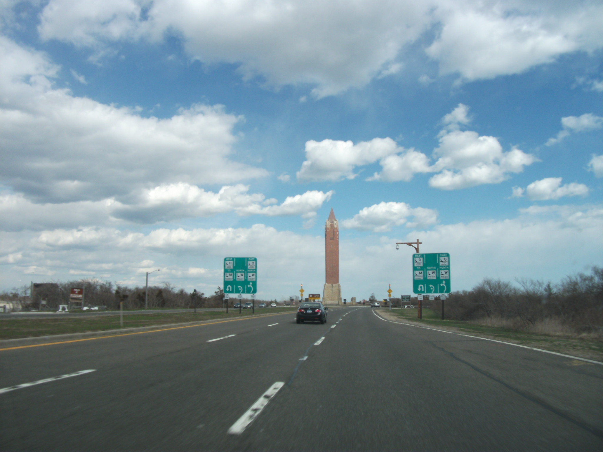 The Ocean Parkway westbound approaching the roundabout with the Wantagh State Parkway. The Jones Beach Water Tower overlooks the roundabout.